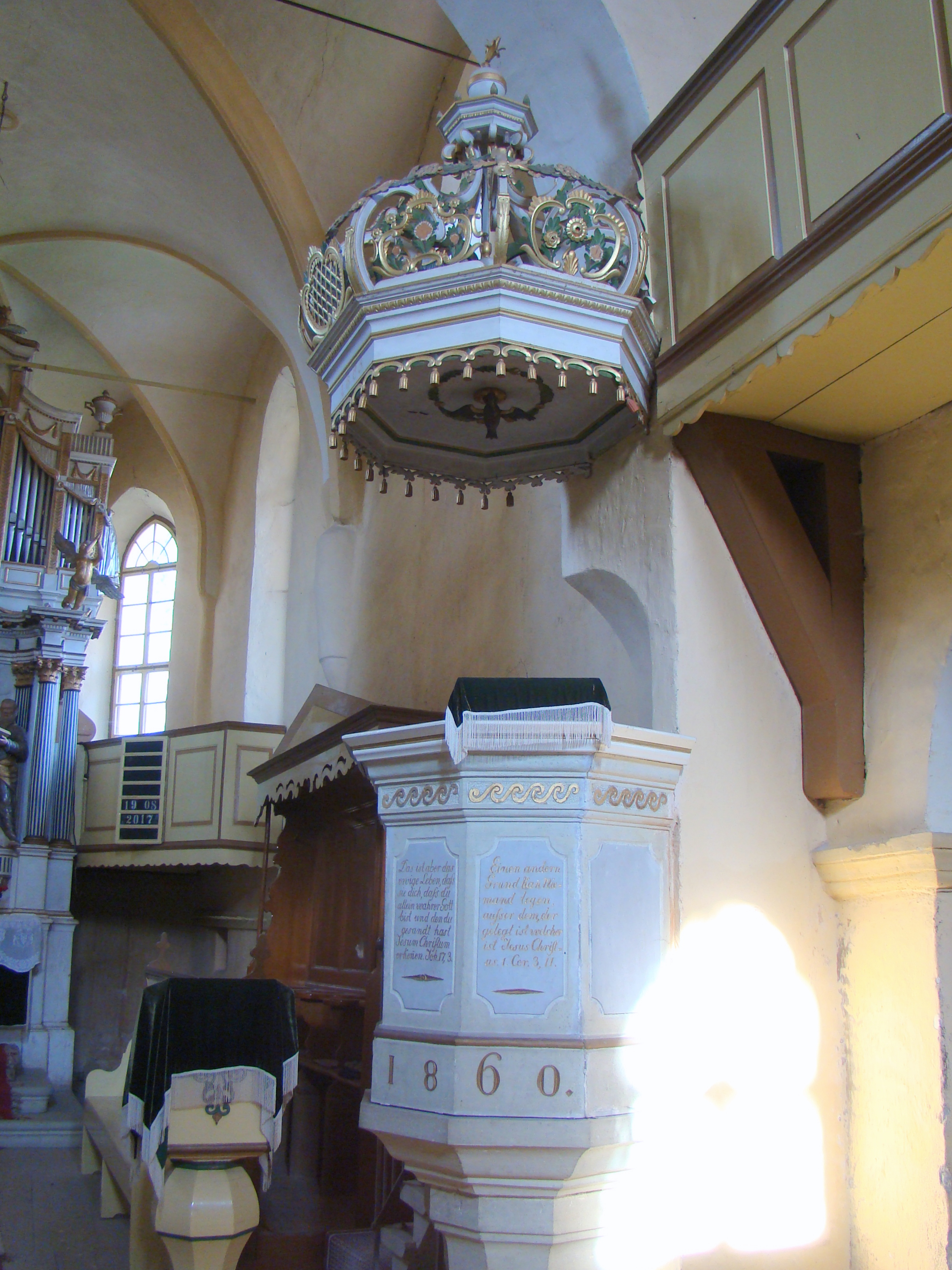 Fortified church in Cața, Braşov County, Romania